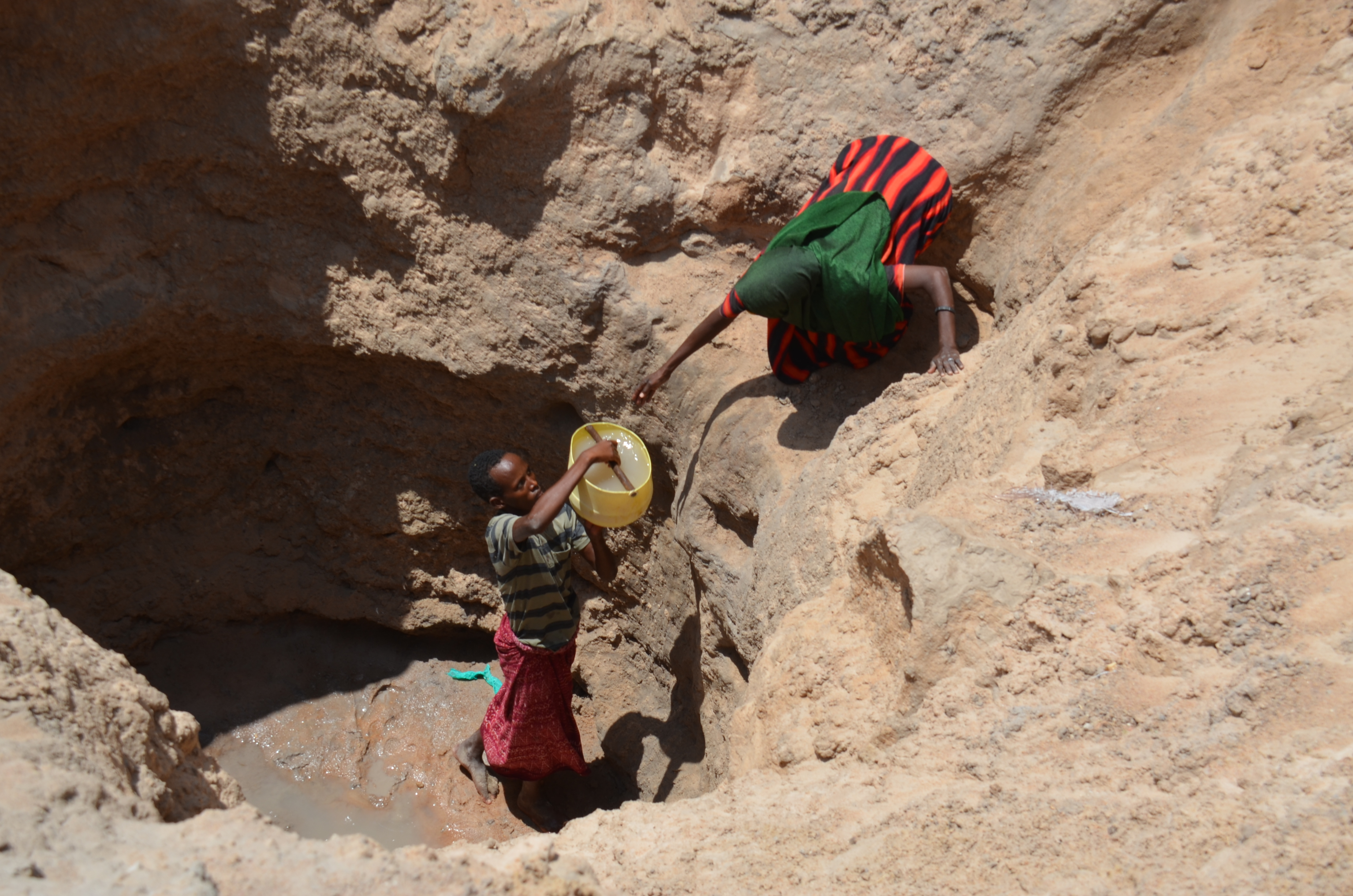 When there is drought in Lagdera's Garissa in Northeastern Kenya, women dug shallow wells to get water for their children and livestock. This is an image of "African people at work" from Kenya